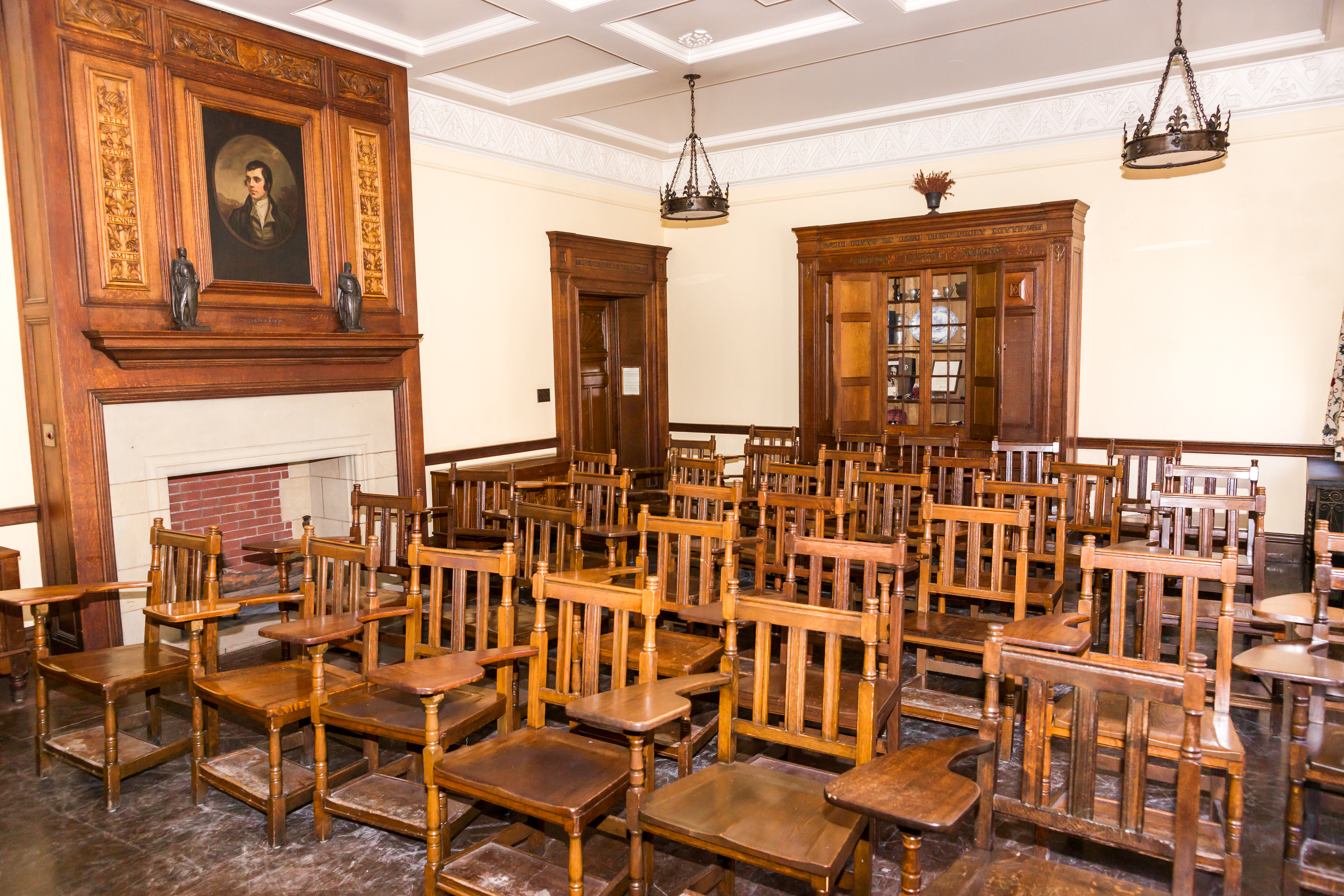 Scottish Nationality Room in the Cathedral of Learning at the University of Pittsburgh